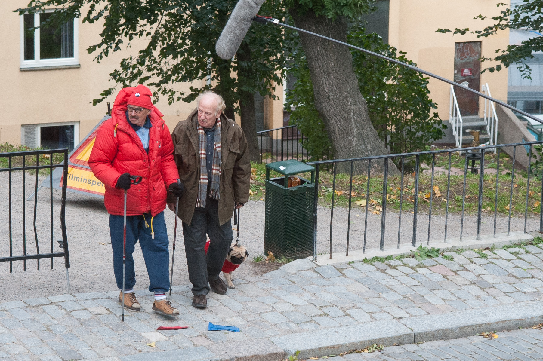 Lasse Åberg and Jon Skolmen at the set of The Stig-Helmer Story, September 2010